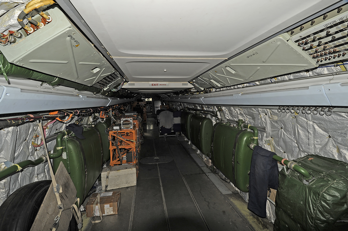 In the plane Be-200. 21512.